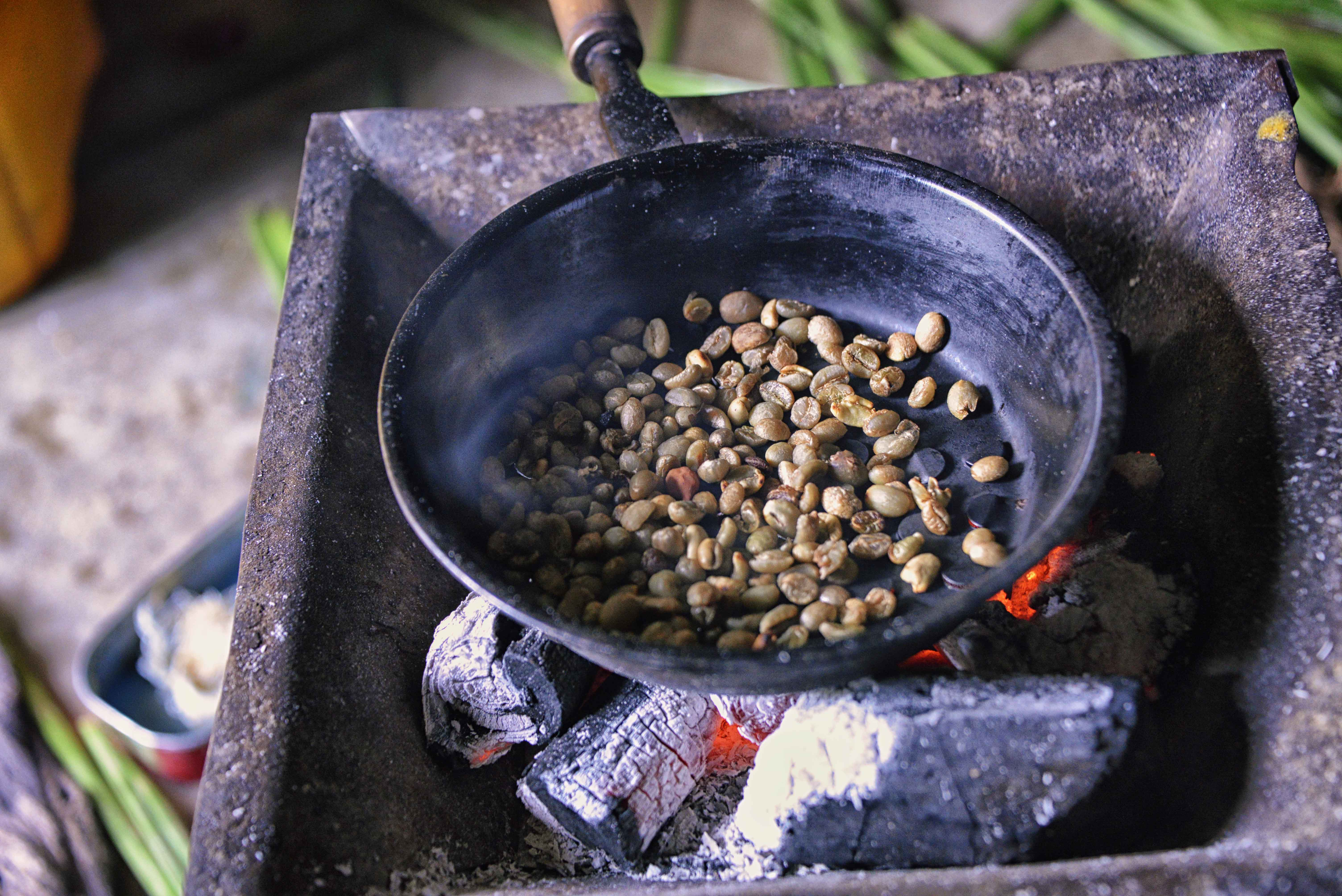 Coffee Bean Roasting, Ethiopia